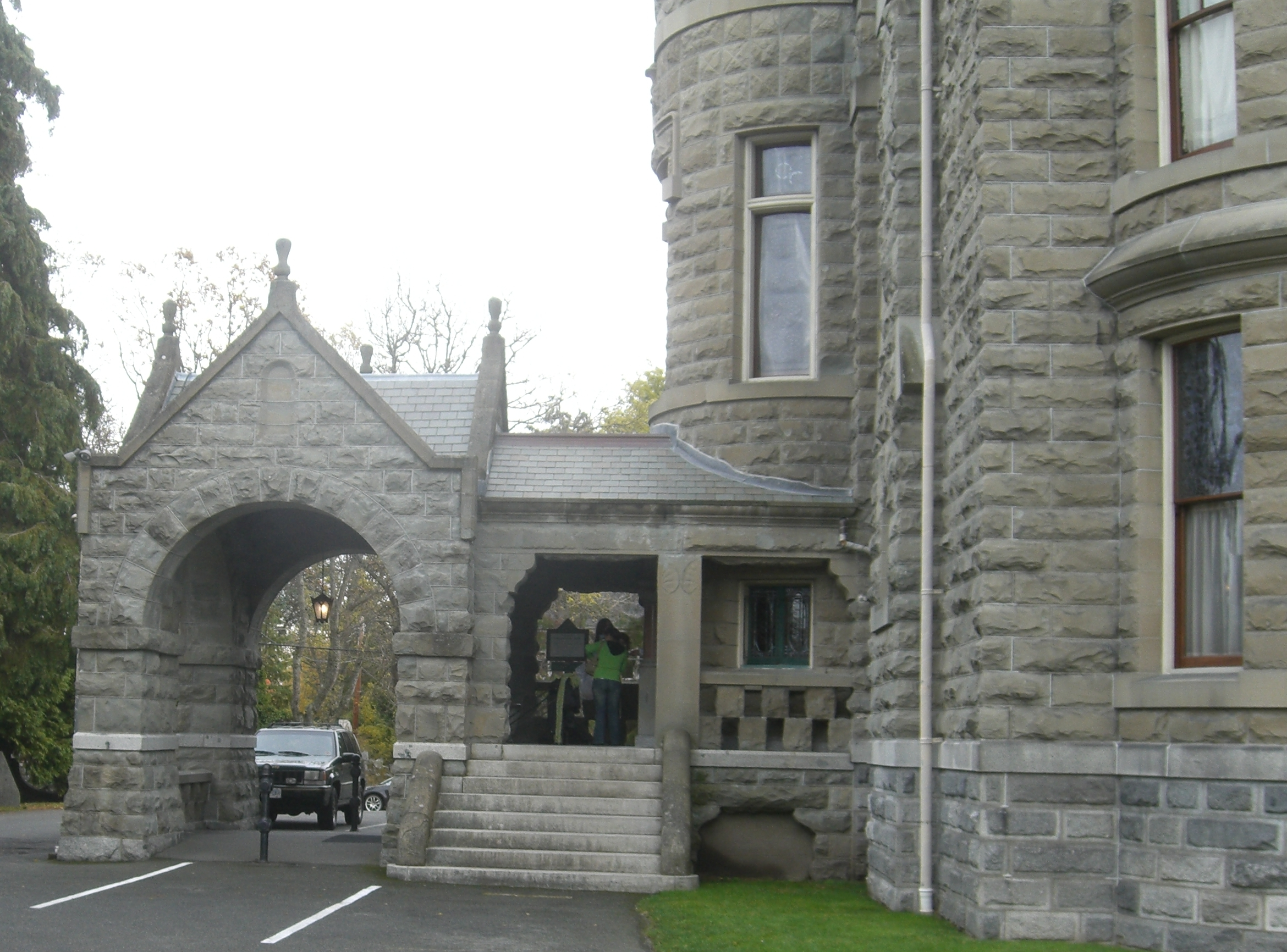 Exterior of Craigdarroch (Dunsmuir) Castle, Victoria BC.